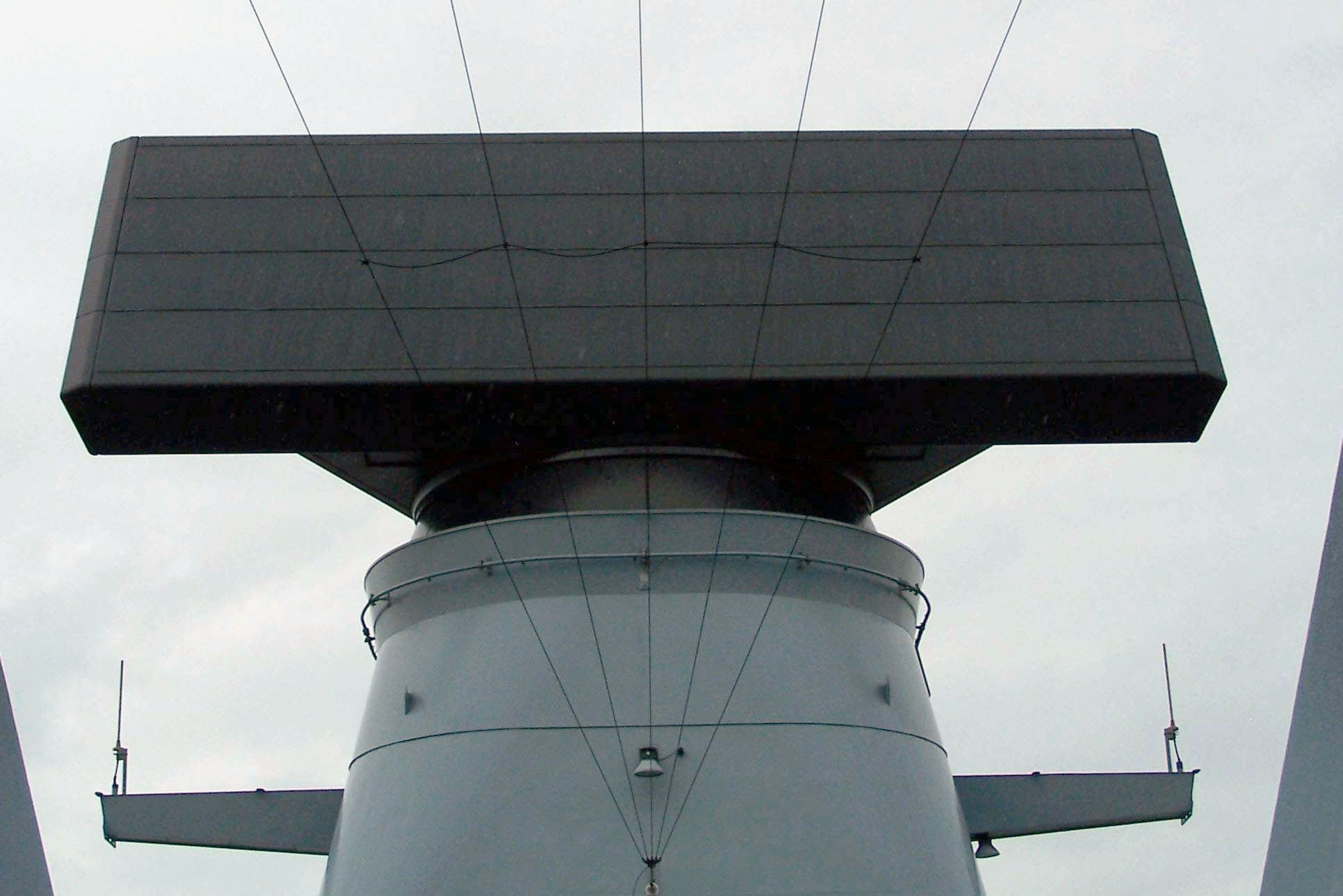 Picture taken at the Kiel Week 2007 onboard F221 Hessen of the German Navy